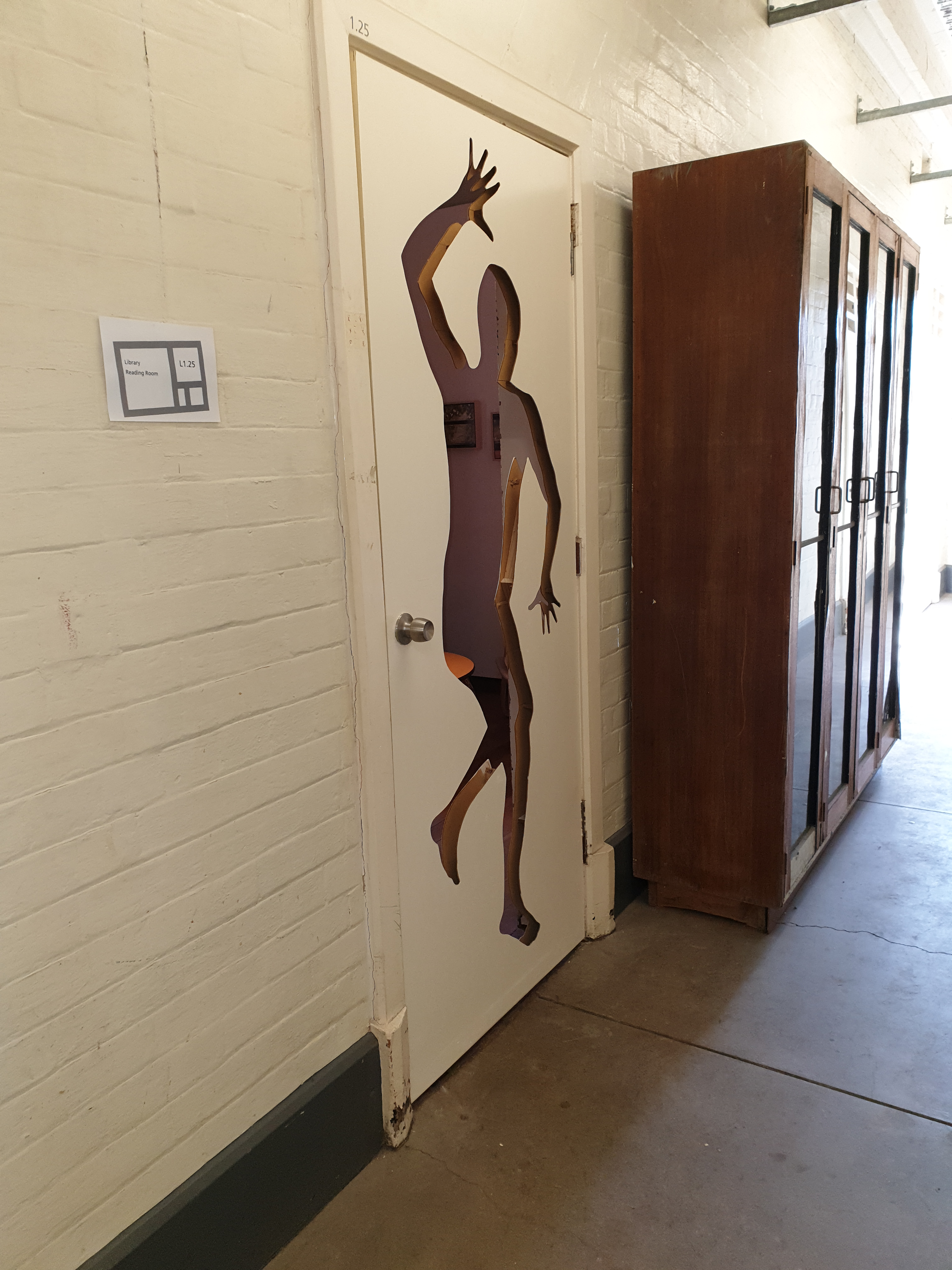 Door sculpture by Roy Ananda, installed at Adelaide Central School of Art